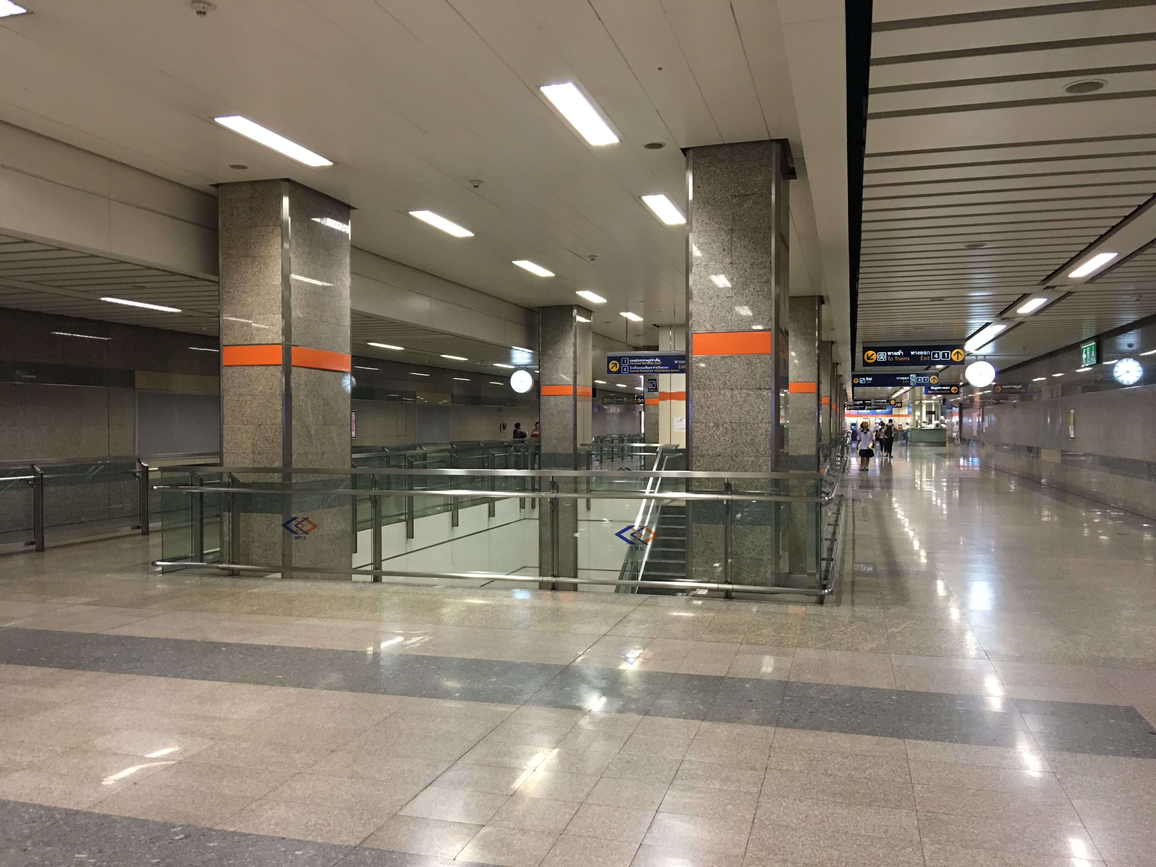 The concourse level of Huai Khwang Station